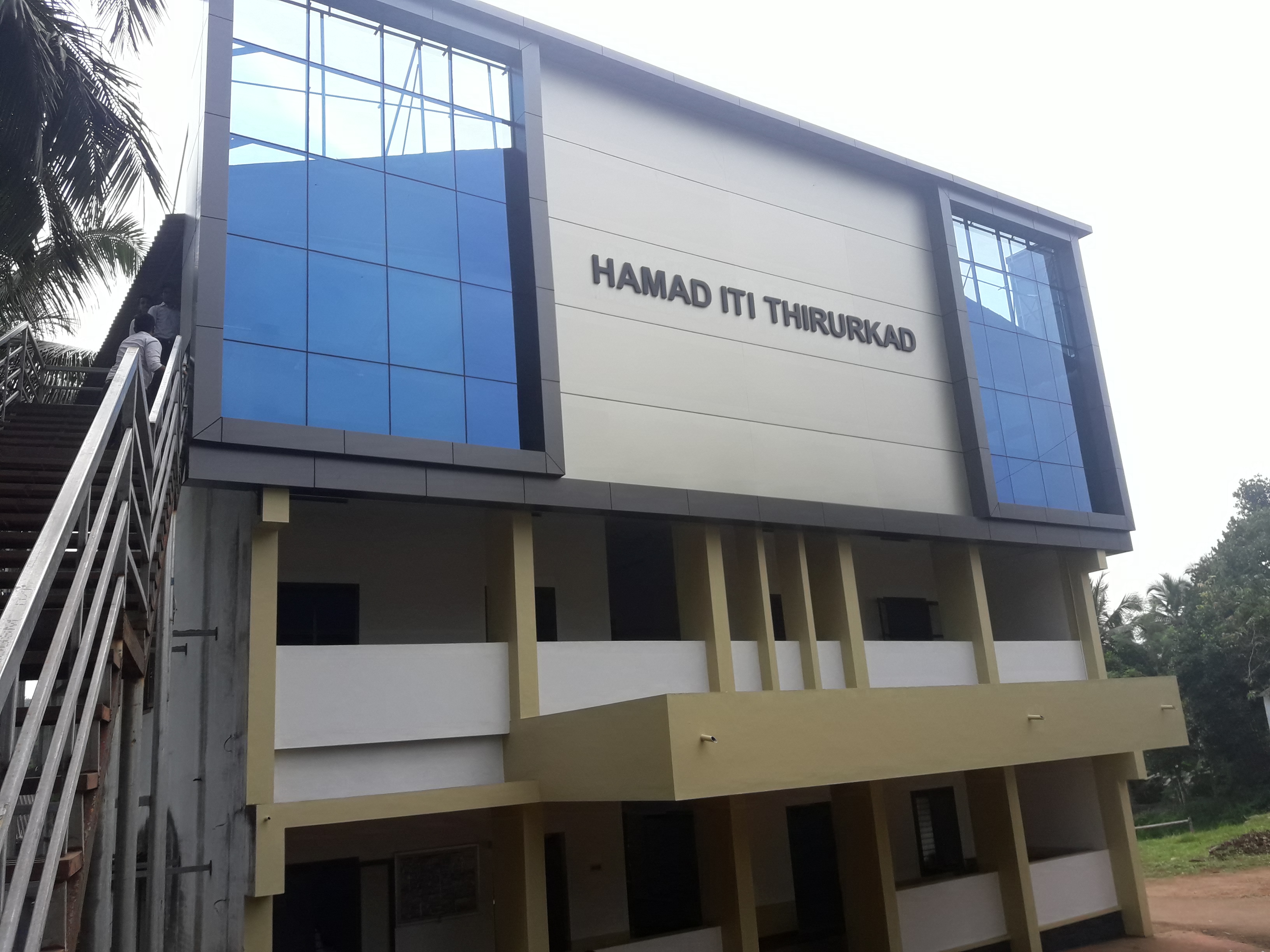 education